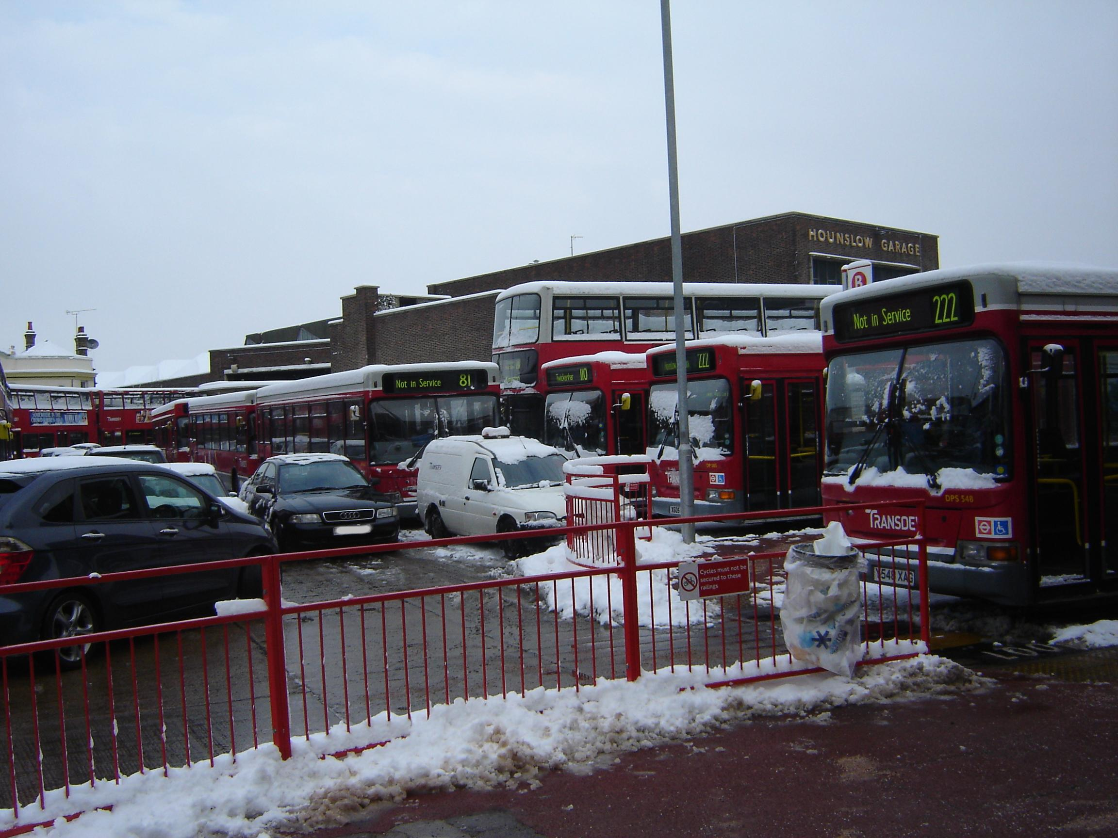 Transdev London buses confined to their Hounslow depot during the snow event of 02/02/09, after the decision to suspend all bus services, due to the dangerous road conditions. 30 buses had already been involved in accidents when the decision was made, although the lack of buses only added to the traffic chaos throughout London.